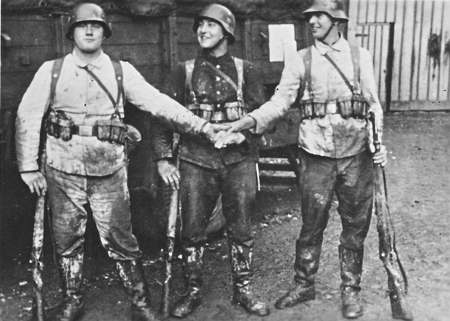 Three recruits have completed basic training in a field exercise, in early 1939.